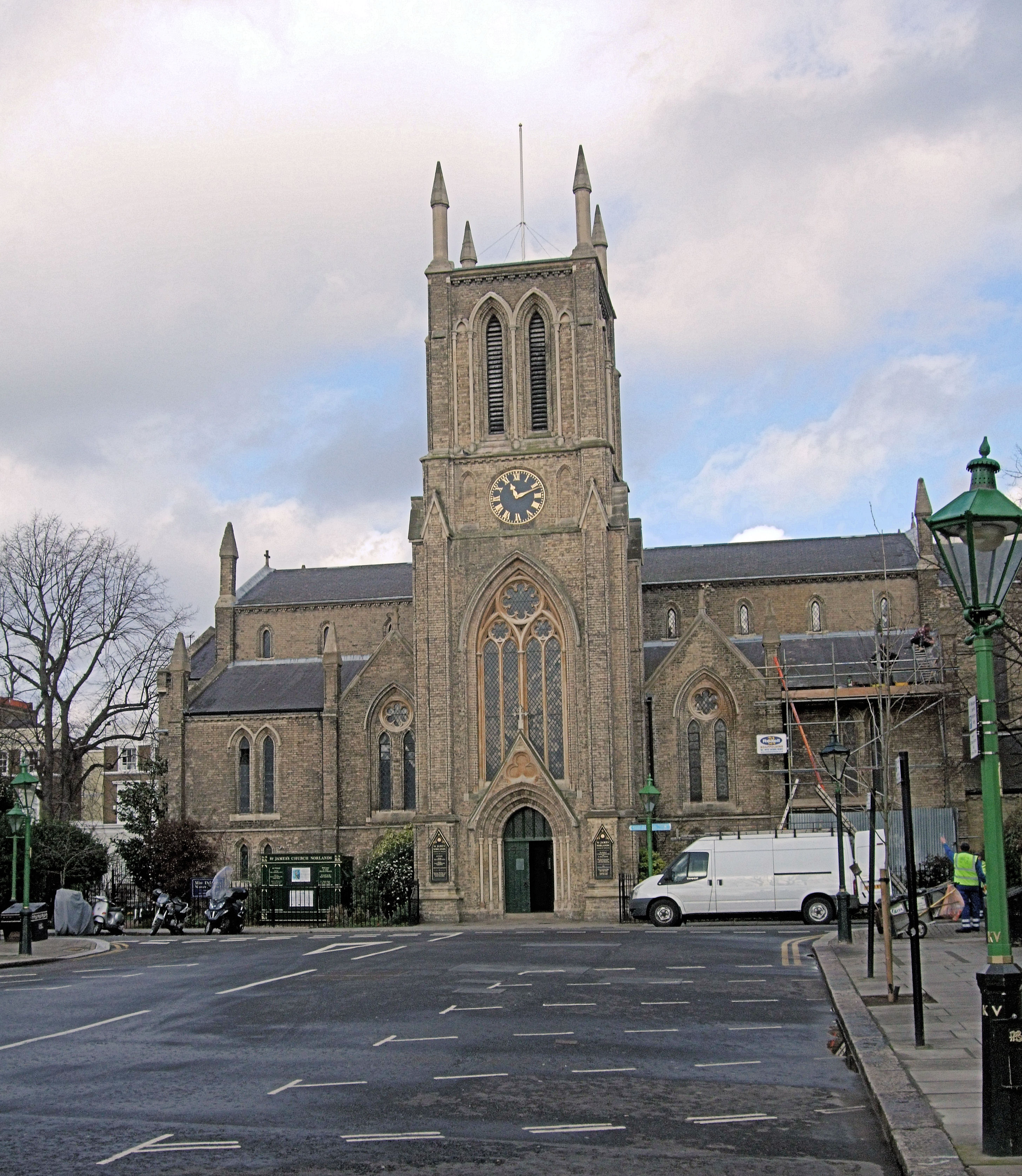 Church of England parish church of St James, Notting Hill, London W11